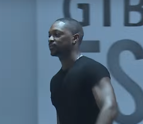 All Or Nothing : Behind The Scenes With Models At The 2017 GTBankFashionWeekend Creative Commons Attribution licence (reuse allowed)